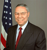 Public Domain Image of Secretary of State Colin Powell. Image is from State Dept. Site.